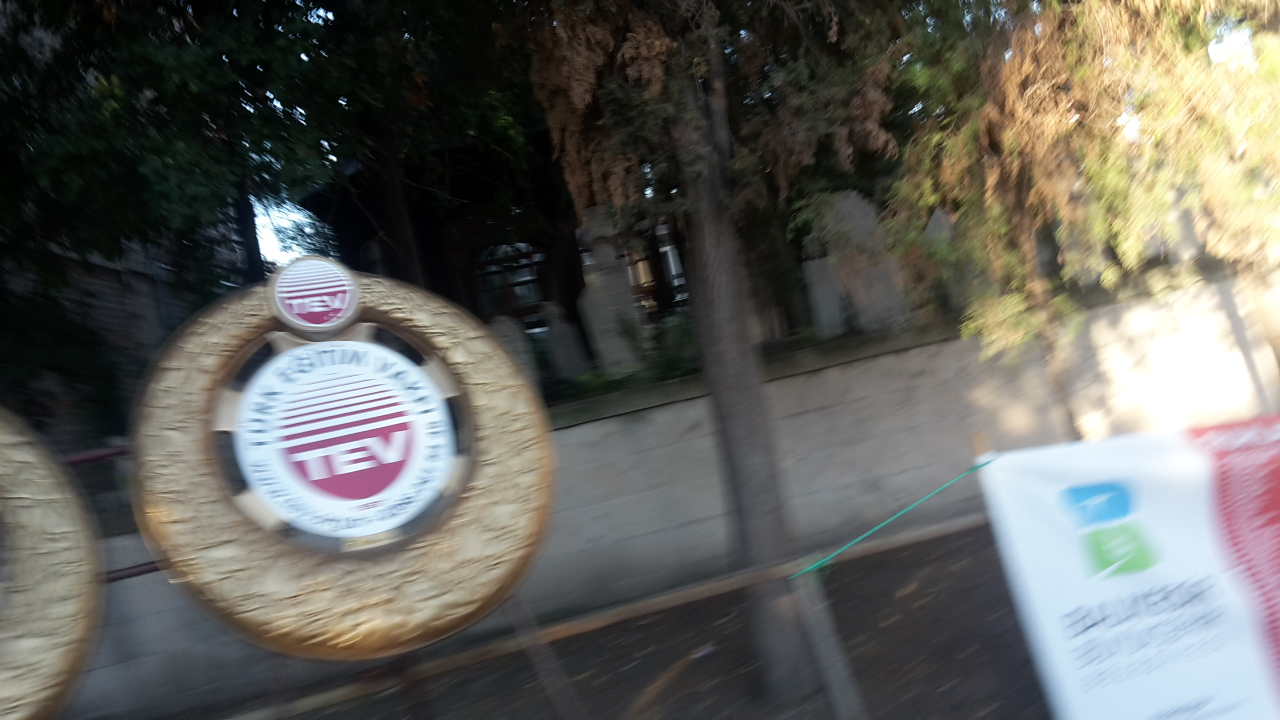 Graveyard of the Zagan Pasha Mosque in Balikéssir.